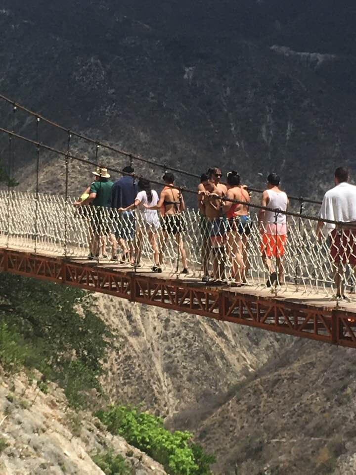 thermal pools hidalgo Mexico bridge 2019